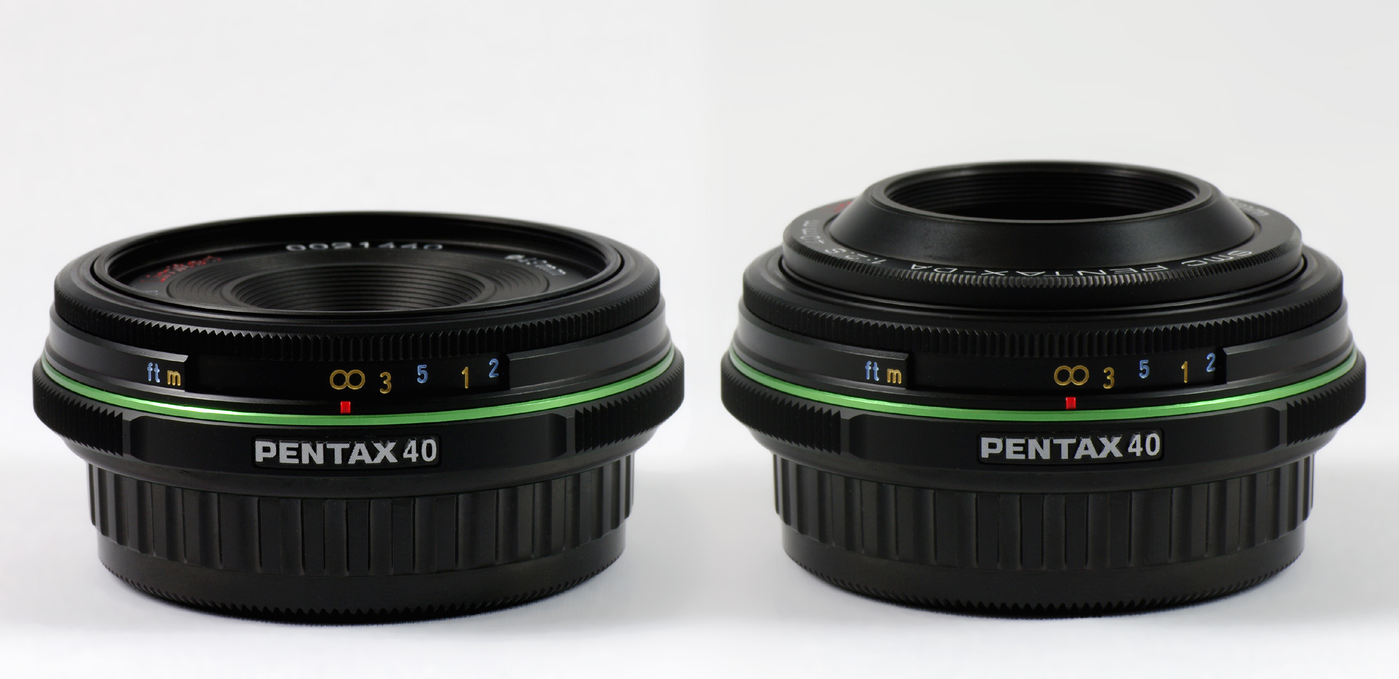 The "pancake" prime lens smc Pentax-DA 1:2.8 / 40 mm Limited – without and with lens hood.